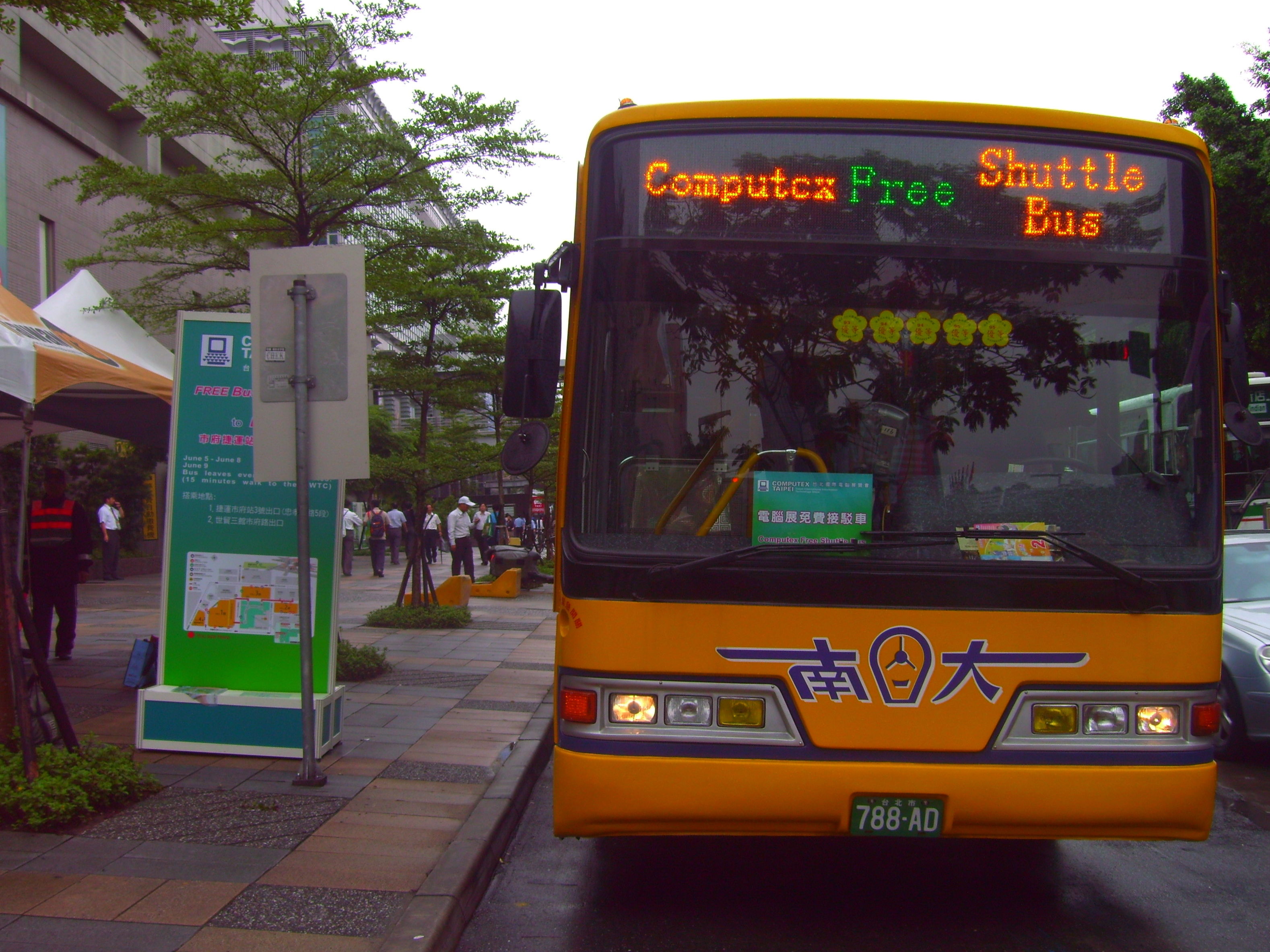 MRT Shuttle Bus of Computex Taipei 2007.